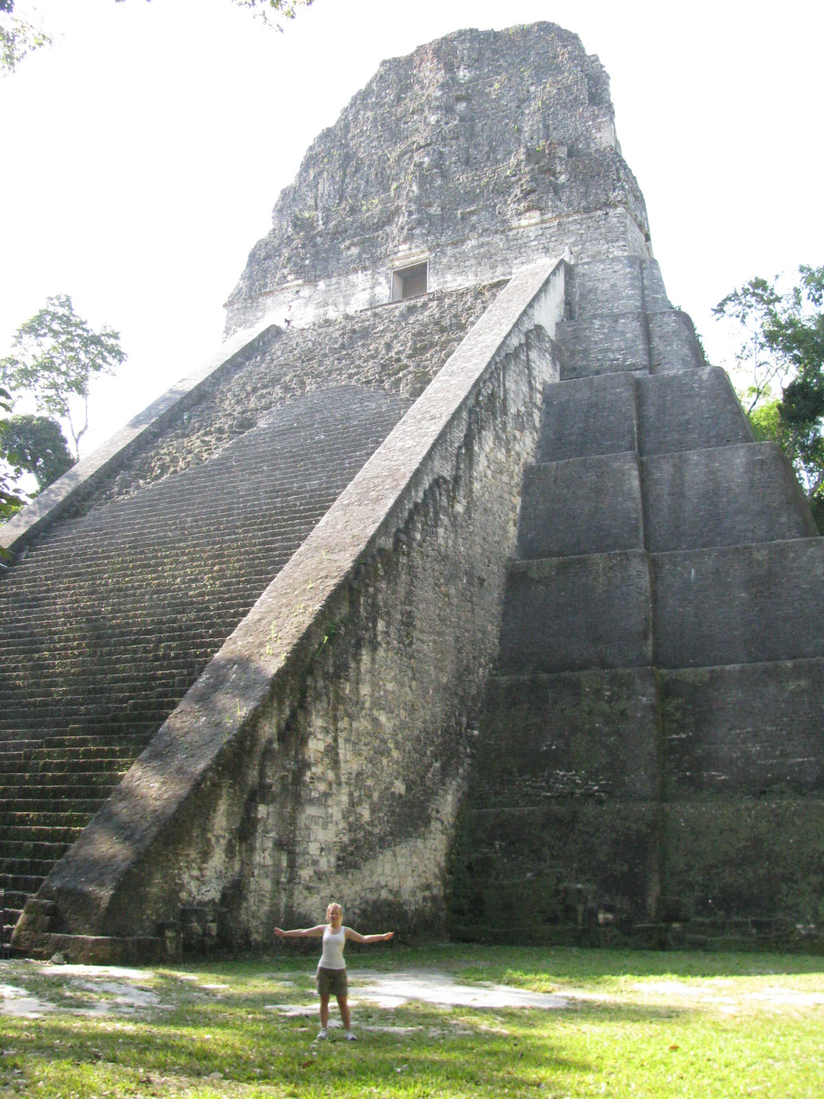 Tikal, Guatemala